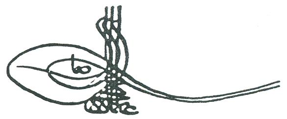 Tughra (i.e., seal or signature) of Osman II, Sultan of the Ottoman Empire (1618-1622). An explanation of the different elements composing the tughra can be found here.